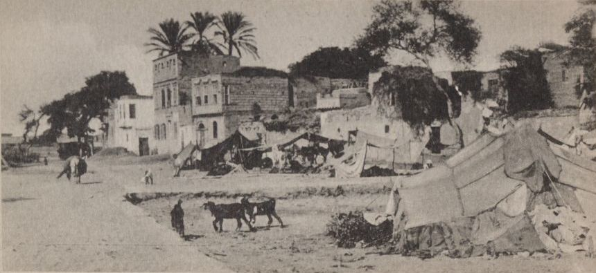 Tents in front of stone buildings, with a couple of animals and men in the streets